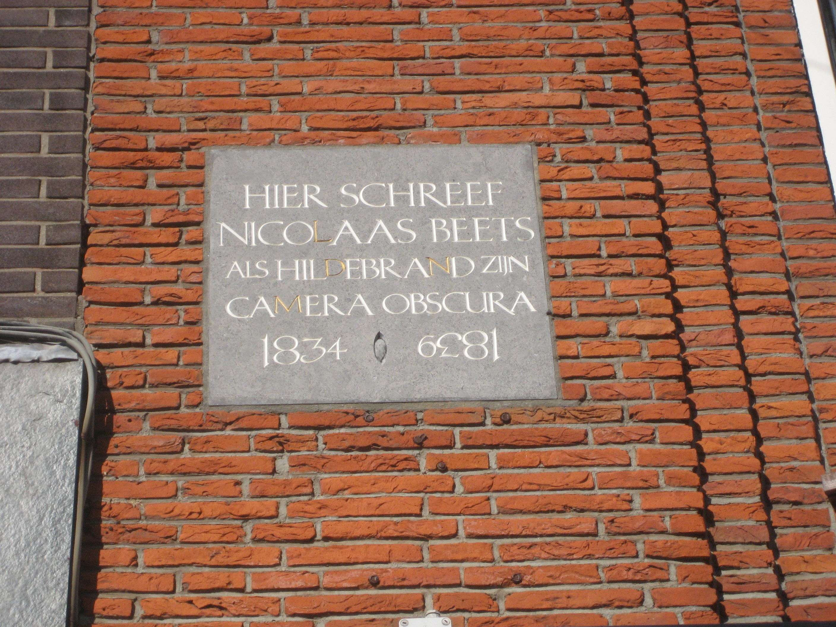 Plaque in Leiden: "Hier schreef Nicolaas Beets als Hildebrand zijn Camera Obscura". Breestraat 114c, Leiden (the Netherlands). Sculptors: BamBam Restauratiebouwers, Leiden